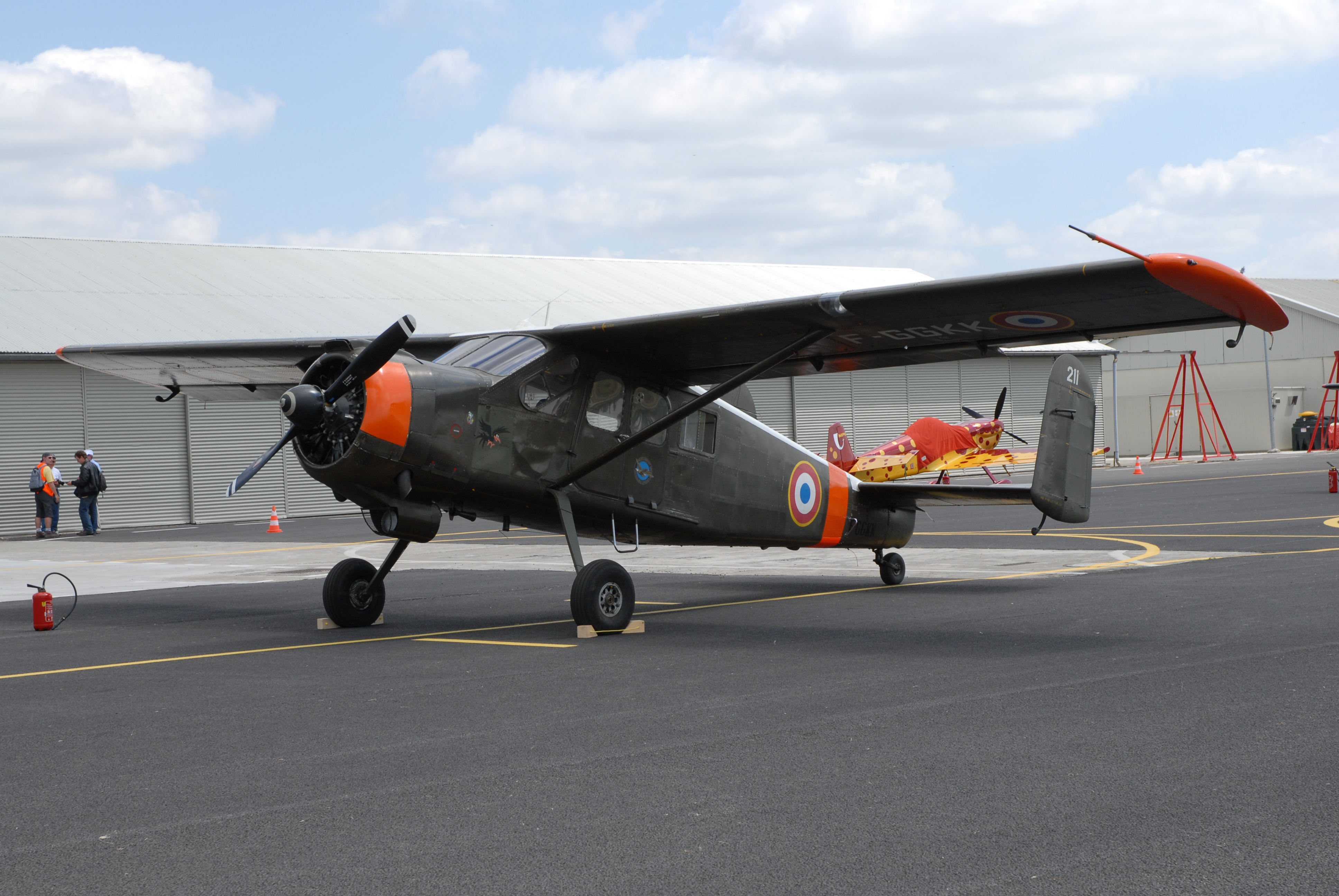 Max-Holste MH-1521 Broussard C1ManufacturerMax Holste (France)ModelMax-Holste MH-1521 Broussard C1Typecivil / militaryRegistration IDF-GGKKOwnerNoëlle JaureguyBased inMuret l'Herm